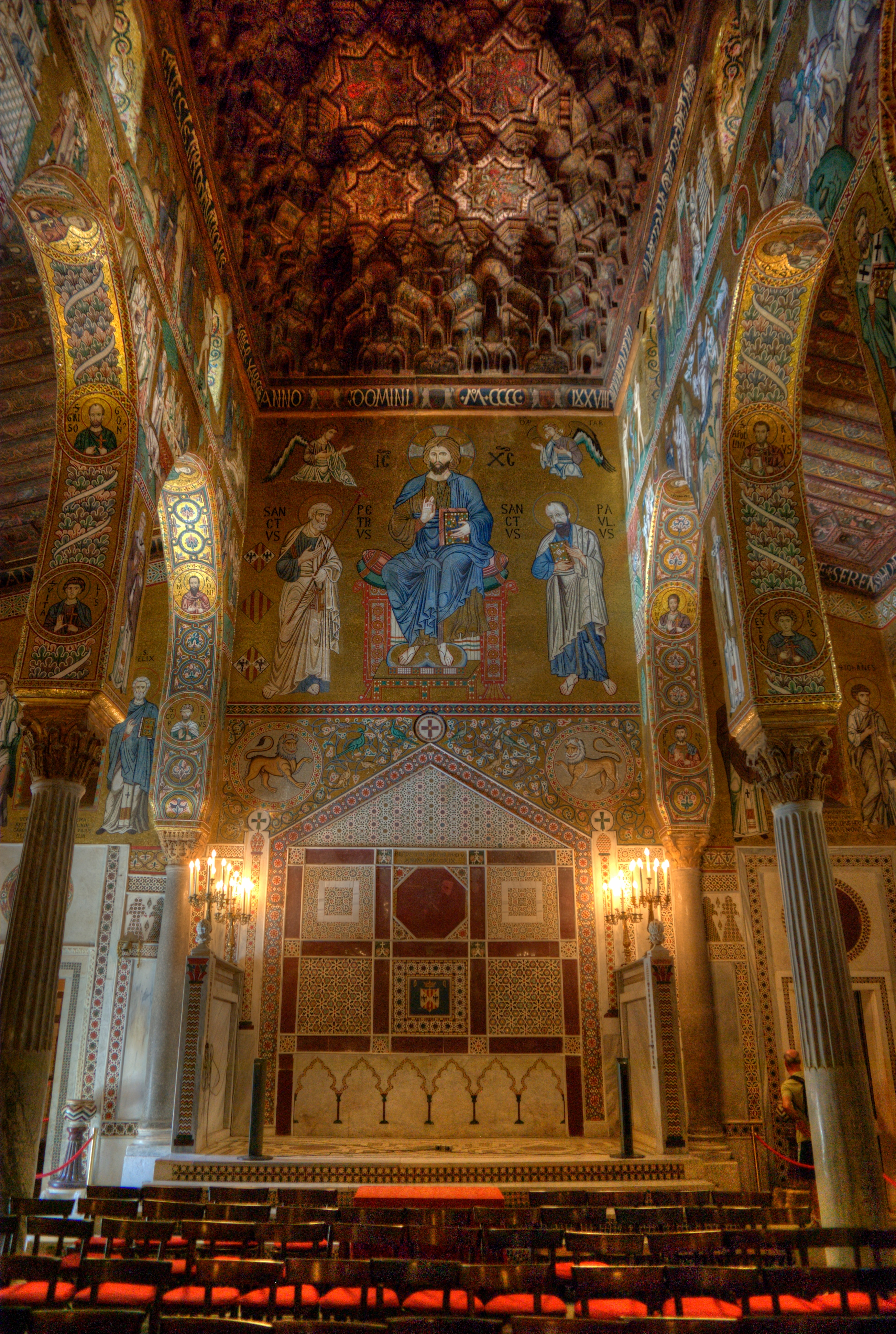 Italy, Sicily, Palermo, Capella Palatina